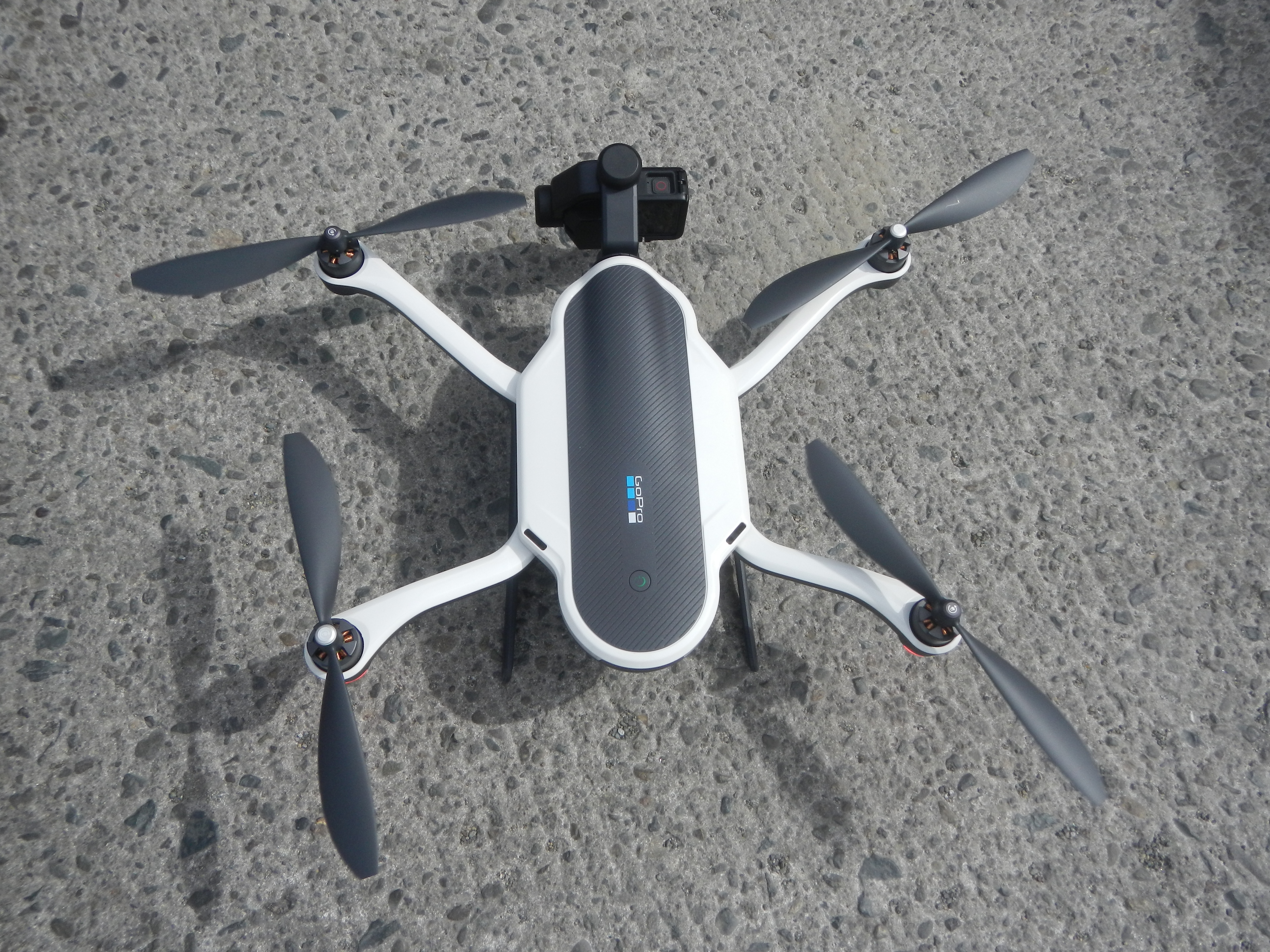 GoPro Karma San Isidro Labrador Church Baroque 14°54'9"N 120°50'56"E Carabaos kneel in Pulilan festival “bountiful harvest” is every year’s theme 5th Mandalá Art Festival "Kneeling Carabaos Festival" in Barangay Poblacion, Pulilan, Bulacan Carabao or Asian Water Buffalo Pulilan farmers hold carabao festival San Isidro Labrador, the patron saint of farmers; Festive carosas, painted carabaos are garland with creative costumes streets flooded with fruits, delicacies and food crops highlighted by the time when all carabaos kneel with their emblematic floats in front of the church as a thanksgiving for a prosperous year of harvest; a) 71.D Philippine Army Marching Band b) Pulilan Teen Model Search Season 2 Ultmate Male and FemaleTeen Model 2017 Congressman Jonathan Alvarado c) Youth For Mom Galileo Pulilan d) Saint Dominic Academy Batch 1992 e) Hiyas ng Bulacan Brass Band f) Provincial Capitol Bulacan State University Symphonic Band Malolos City by The Mill Food Park g) Banda Malaya 31 Banda 6 MCD h) R and V Drum and Lyre Band i) Santo Cristo Elementary School Melodion Ensemble; j) Competition by all Barangays Floats Kneeling Carabaos with Prizes and k) Commercial Floats with Kneeling Carabaos and Thousands of Parading Carabaos; the Rule requires Carabaos to Kneel and Genuflect even Kneel-Walk and bow down before the San Isidro Labrador Parish Church to Honor Saint Isidore for Good Harvest (Note: Judge Florentino Floro, the owner, to repeat, Donor Florentino Floro of all these photos hereby donate gratuitously, freely and unconditionally all these photos to and for Wikimedia Commons, exclusively, for public use of the public domain, and again without any condition whatsoever).